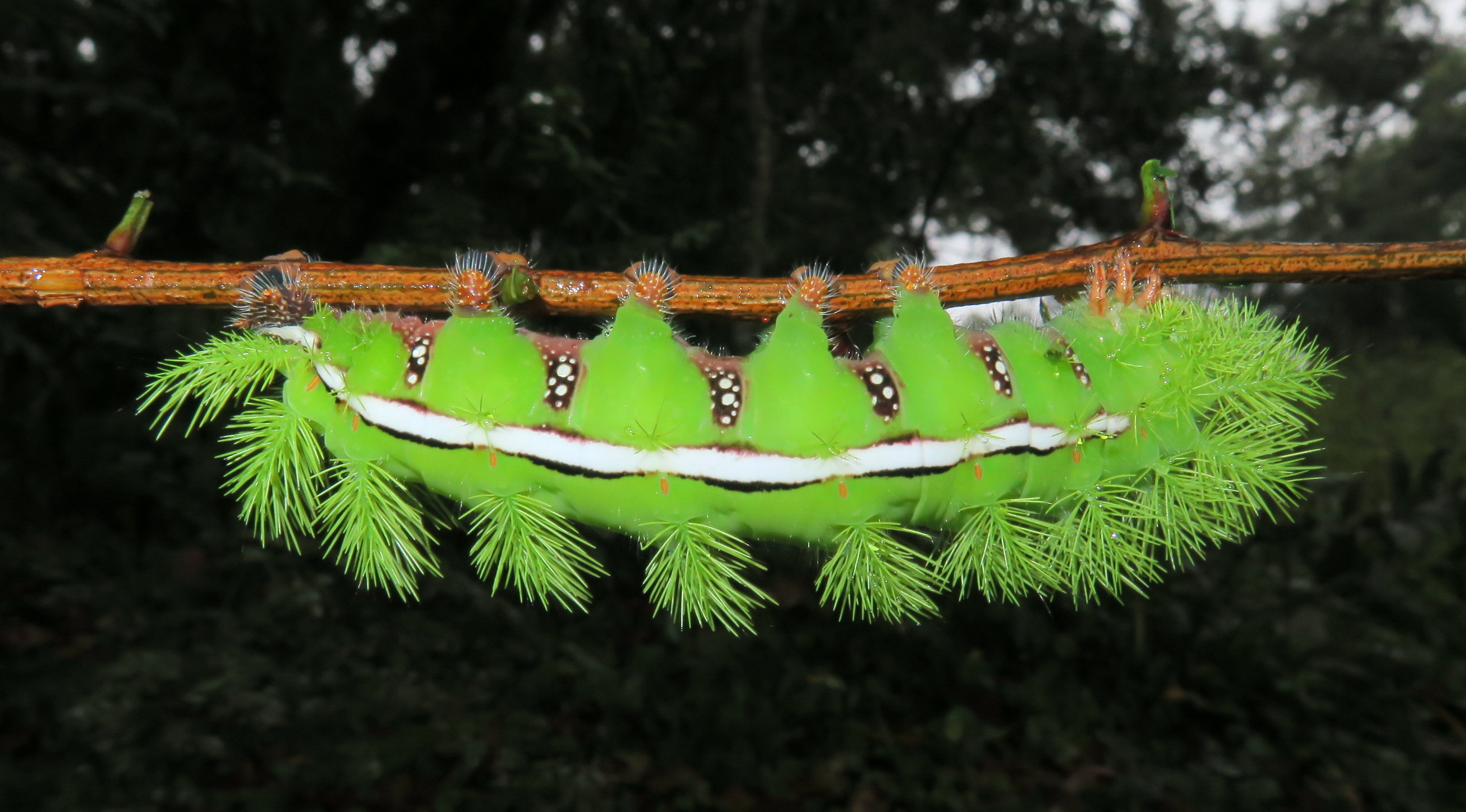 Automeris species, found in Tonatico, Sierra Gorda, Querétaro, Mexico. I discovered this caterpillar because after I walked by this branch I noticed a very intense pain in my leg. The sting persisted for 5 minutes, and then subsided. Probably not Automeris io due to the lack of a red stripe down the side.